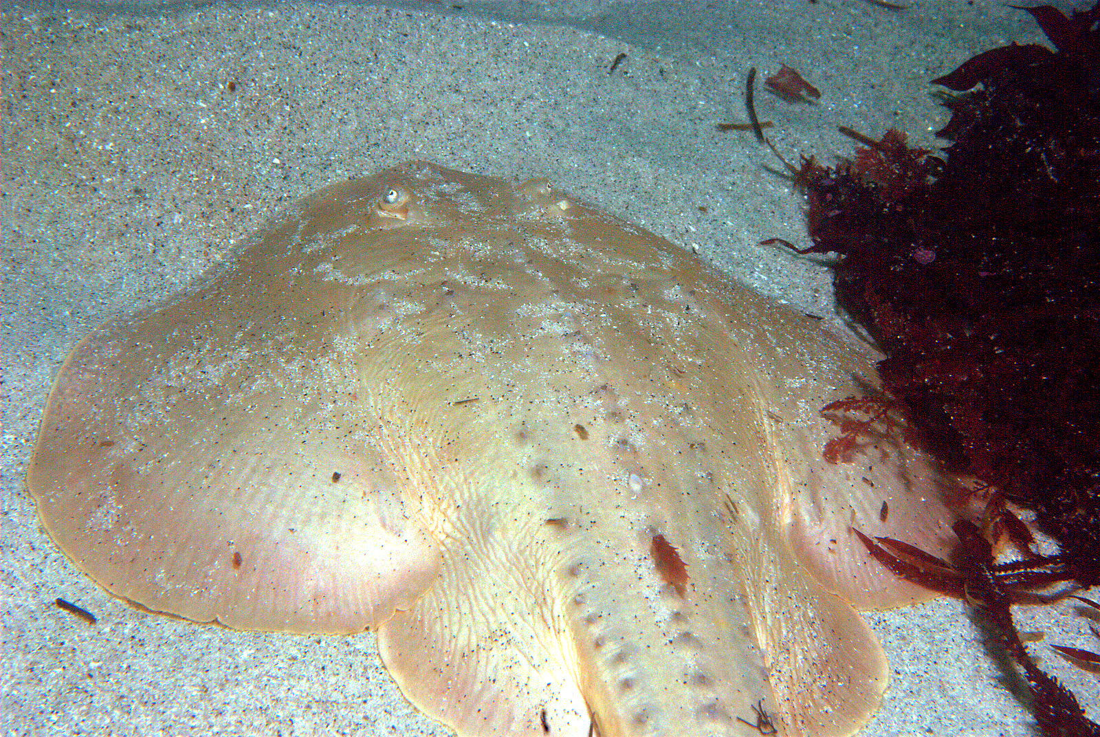 Thornback guitarfish (Platyrhinoidis triseriata) at Lover's Point 3 dive site, California.